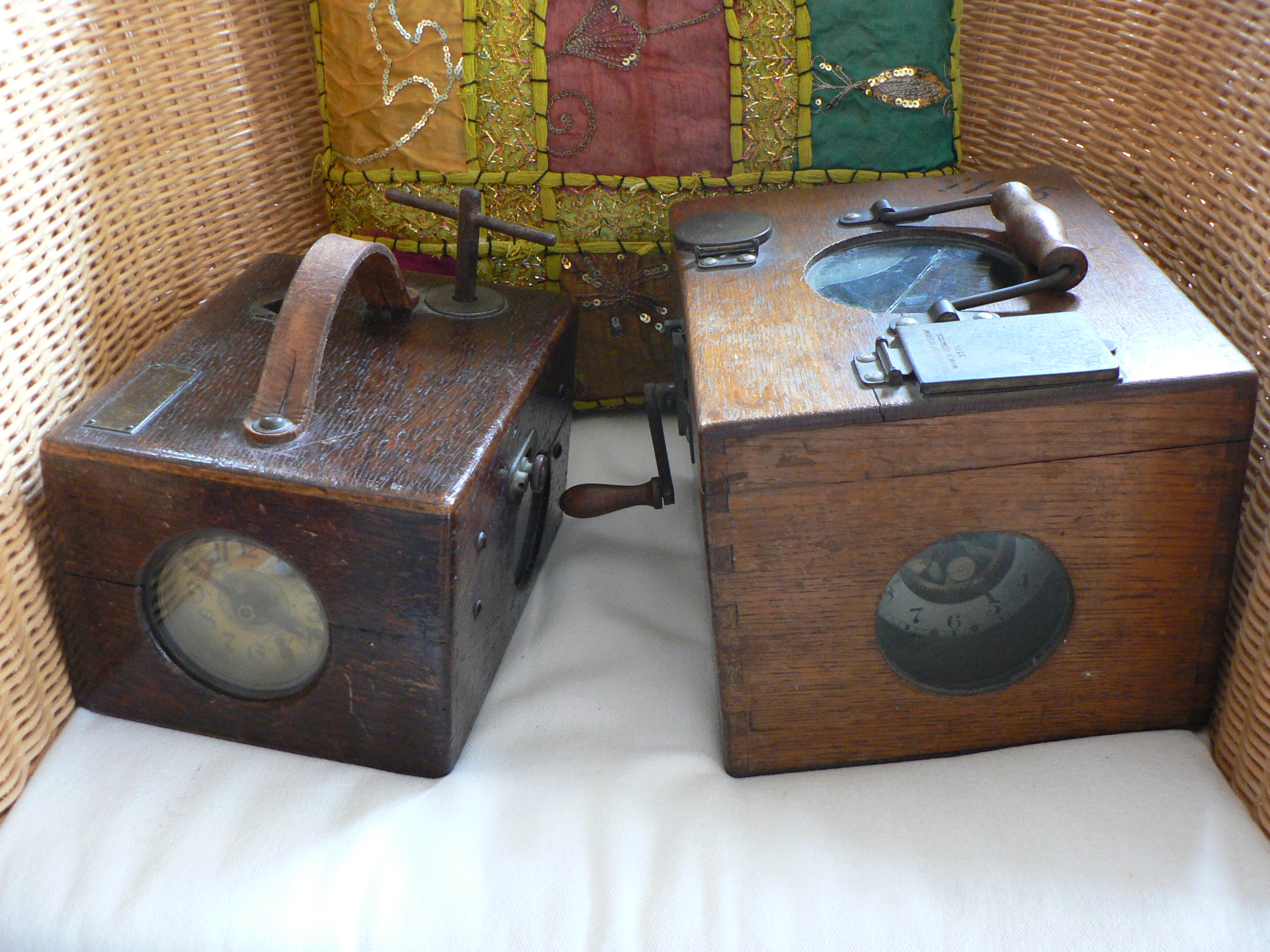 Pigeon race clocks, Flanders, Belgium